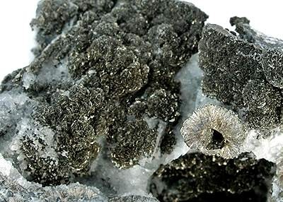 Rammelsbergite Locality: Ste Marie-aux-Mines (Markirch), Haut-Rhin, Alsace, France (Locality at ) Size: 5.5 x 4.9 x 3.4 cm. An extremely rare old French rammelsbergite, from this classic mining district. The specimen is very rich with microcrystals, and a few larger aggregates to 5mm. Ex. Martin Zinn, Eric Asselborn, and F. John Barlow Collections.